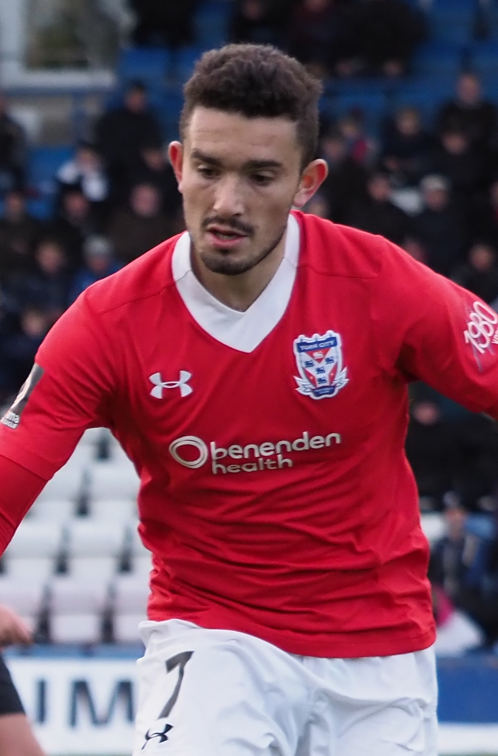 Alex Harris playing for York City against AFC Telford United at the New Bucks Head, Telford on 27 October 2018